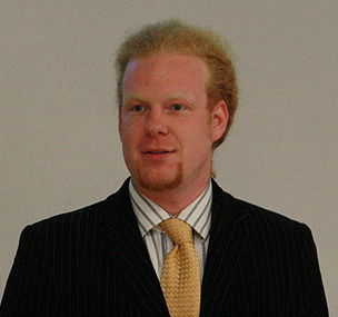 Czech economist PhDr. Tomáš Sedláček at Firma a konkurenční prostředí conference